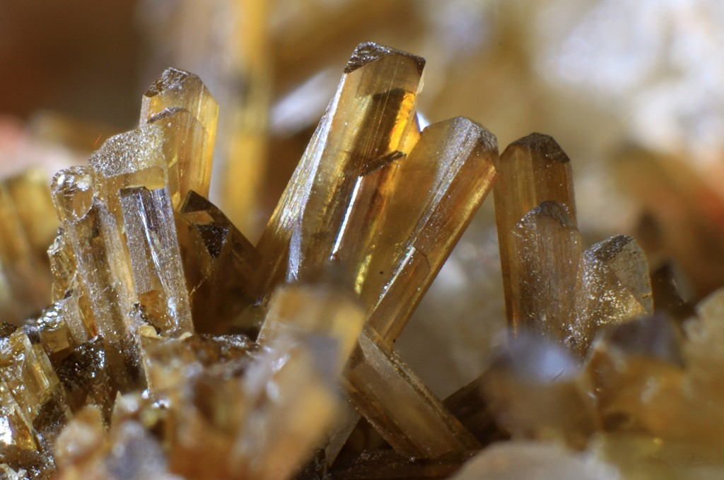 Raspite (FOV 6,2 mm) Locality: Puech de Compolibat, Compolibat, Aveyron, Midi-Pyrénées, France Original description: Self collected in april 2010. Photo and collection : Laurent Gayraud